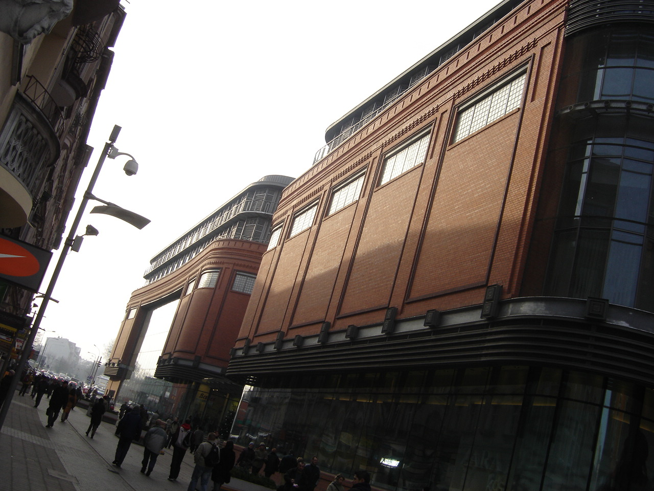 Old Brewery (Poznan, Poland), Polwiejska street.